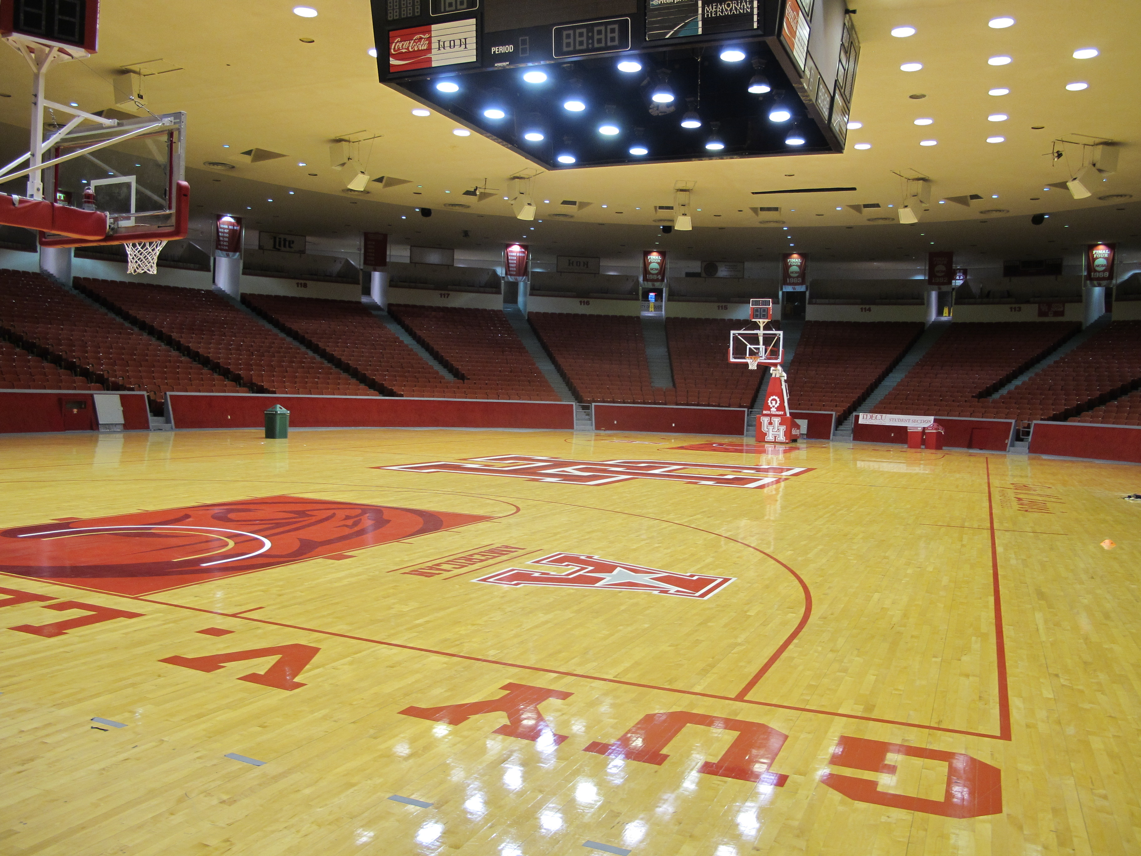 Houston's Hofheinz Pavillion Court Looking Up